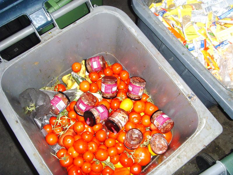 Discarded food in a dumpster. Stockholm, Sweden.